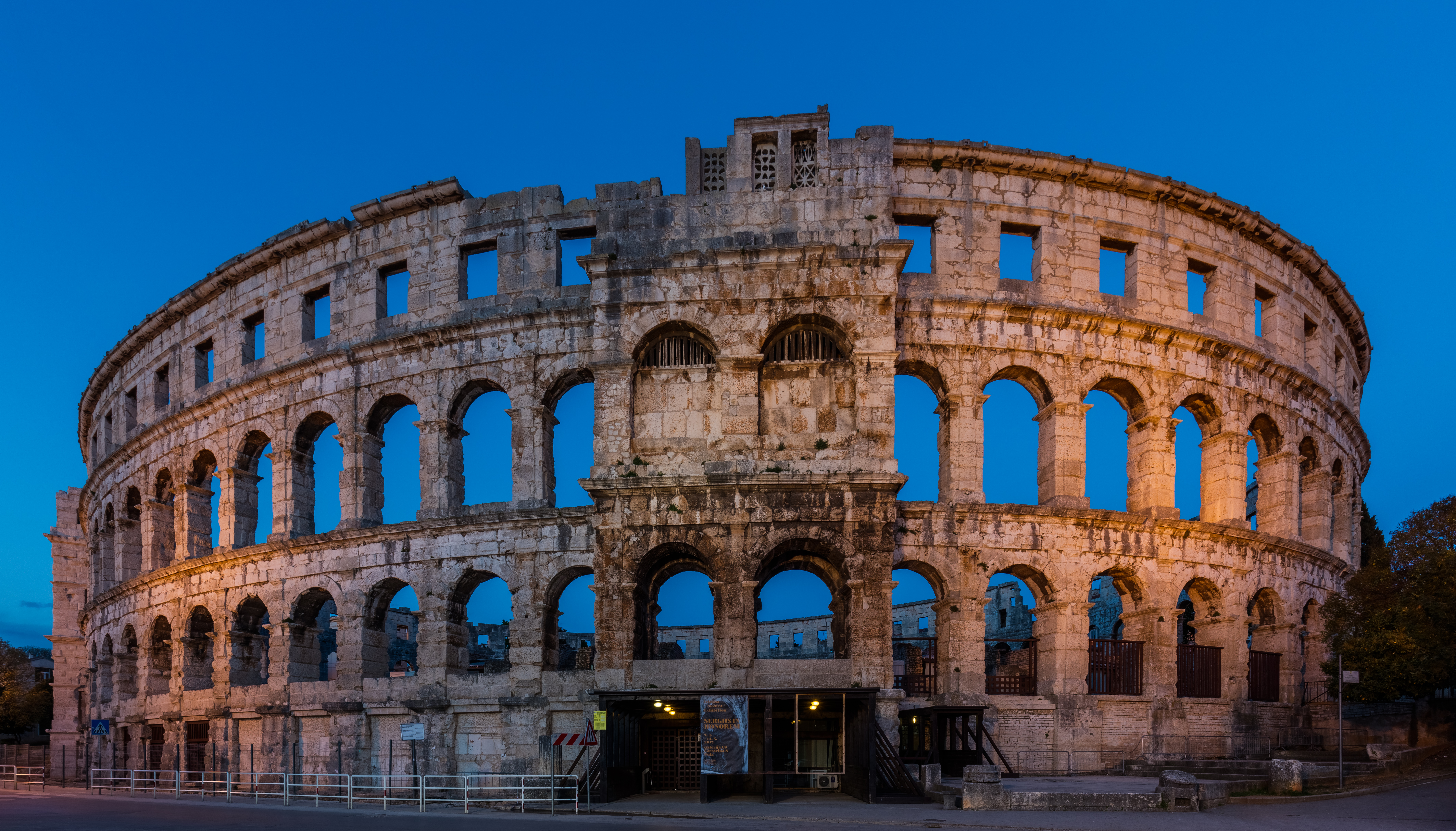 Pula amphitheatre, Croatia. This is a a photo of a cultural heritage in Croatia with ID: Z-863